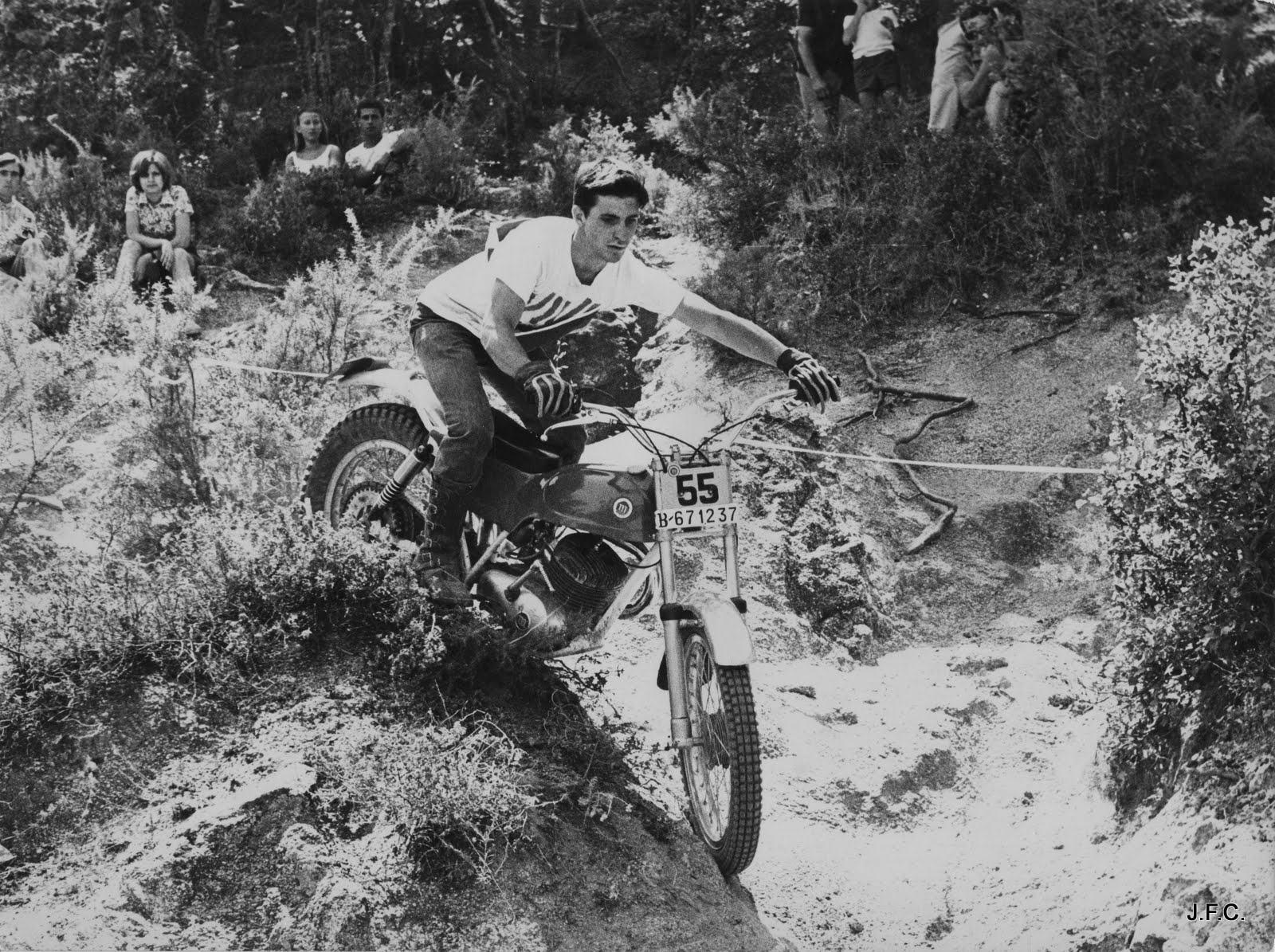 Joan Font on his Montesa Cota 247 at the 1969 Trial de Mataró (Catalonia)